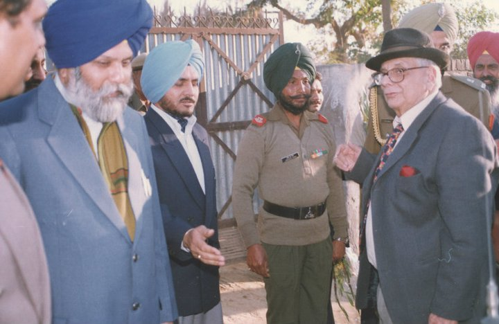 Governor's visit to Village Jalwana (c.2000)